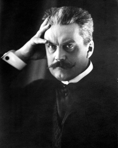 Postcard version of portrait photograph by Daniel Nyblin ( Postcard made by Paul Heckscher, publisher of postcards. The postcard might be slightly less faded.